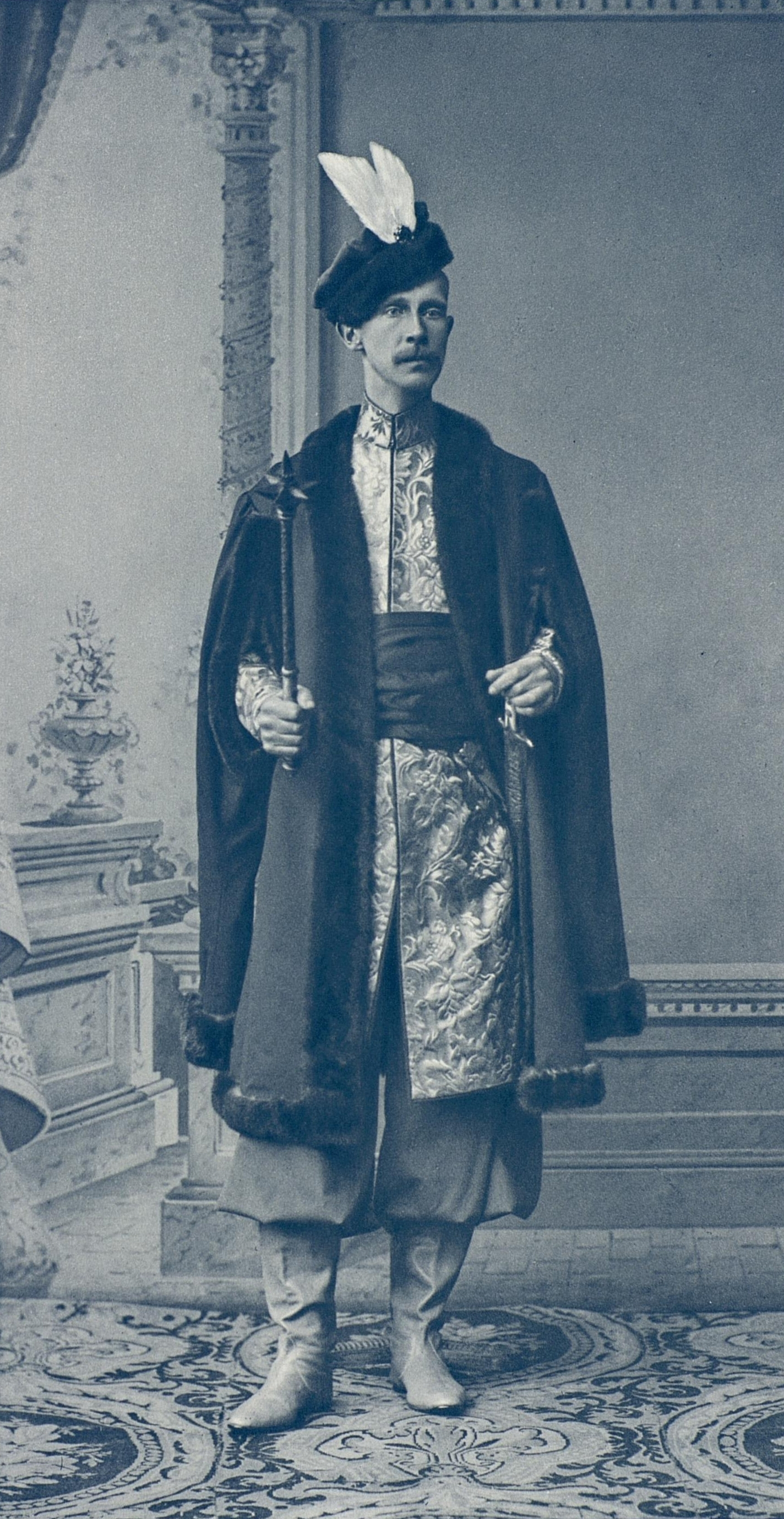 Grand Duke Dmitriy Constantinovich, grandson of Nicholas I